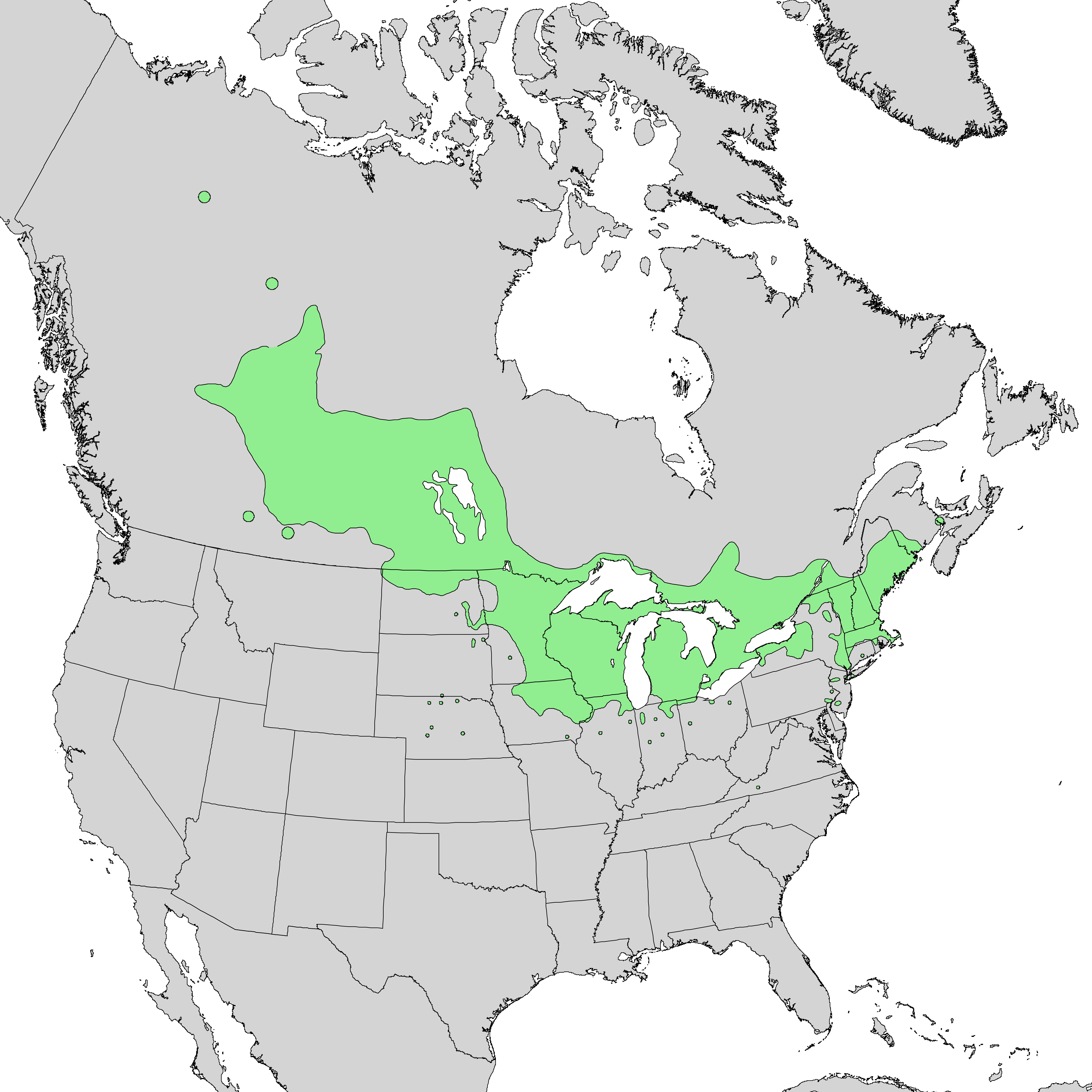 Natural distribution map for Salix petiolaris (meadow willow)